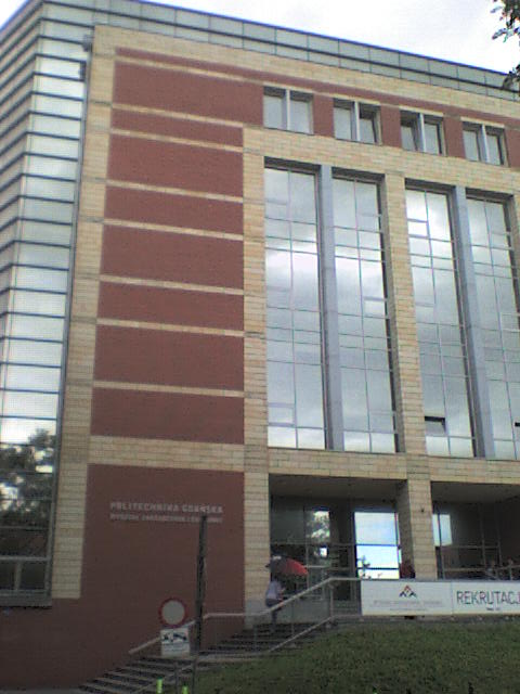 The building of Gdansk University of Technology - Faculty of Management & Economics